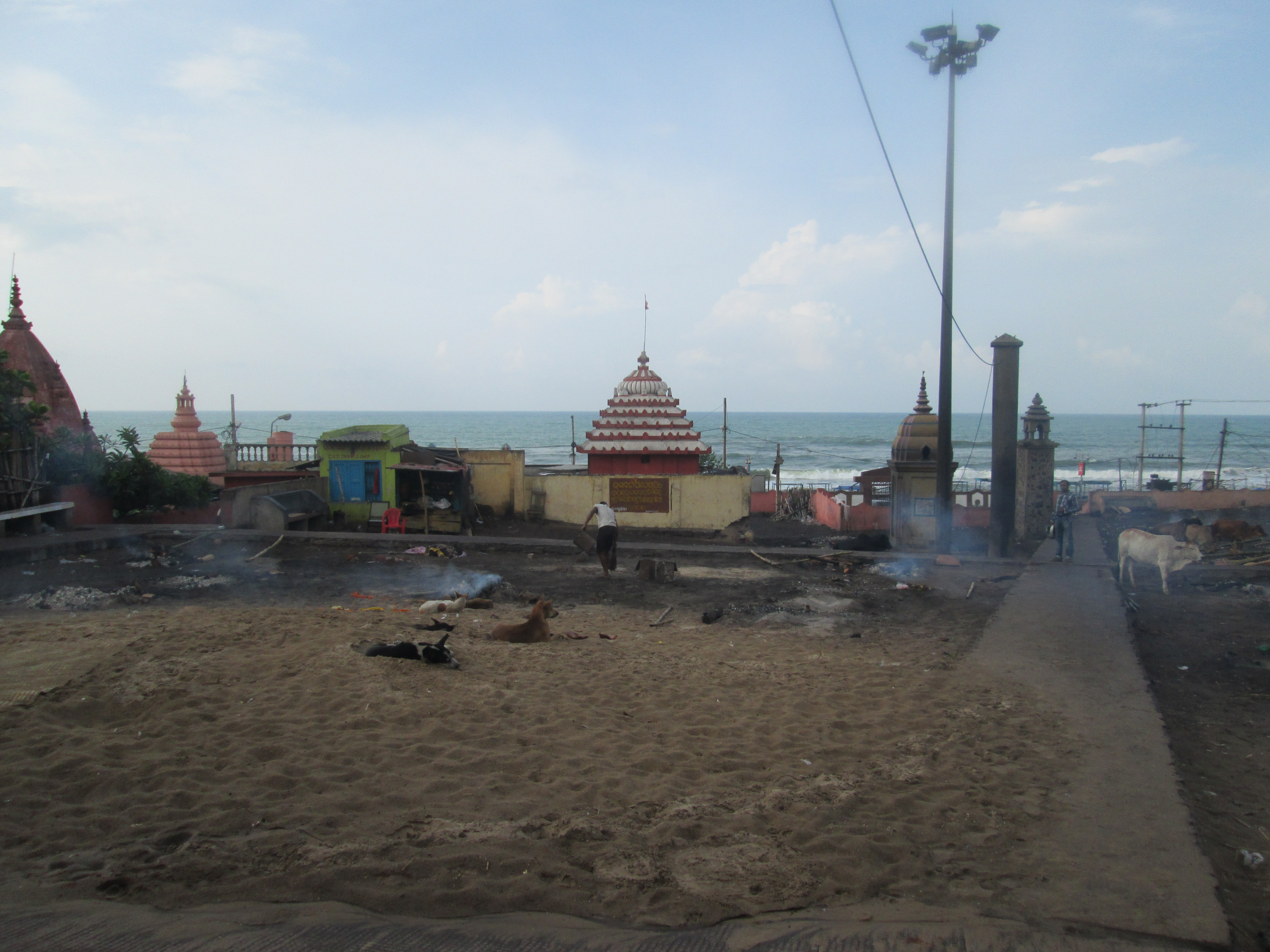 Swargadwar, Puri,Odisha